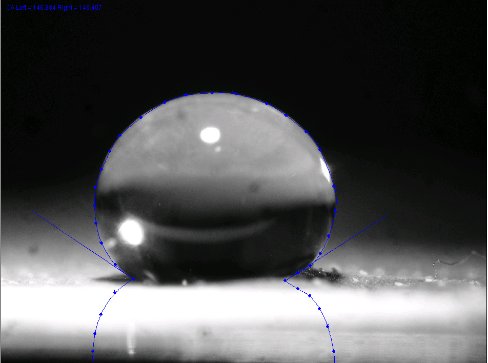 A picture which shows the contact angle between a drop and the surface of a lotus.